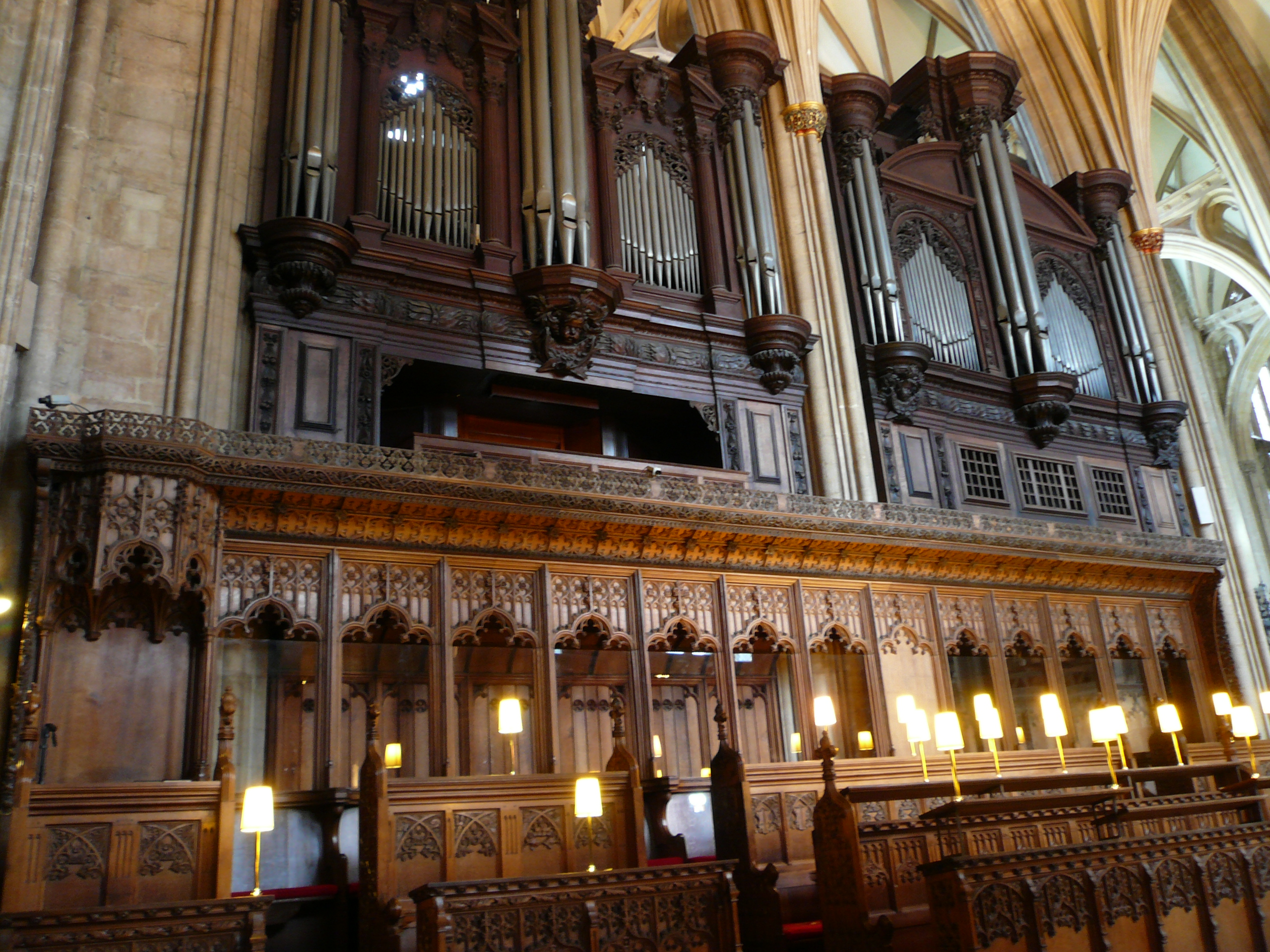 Bristol Cathedral organ and quire stalls